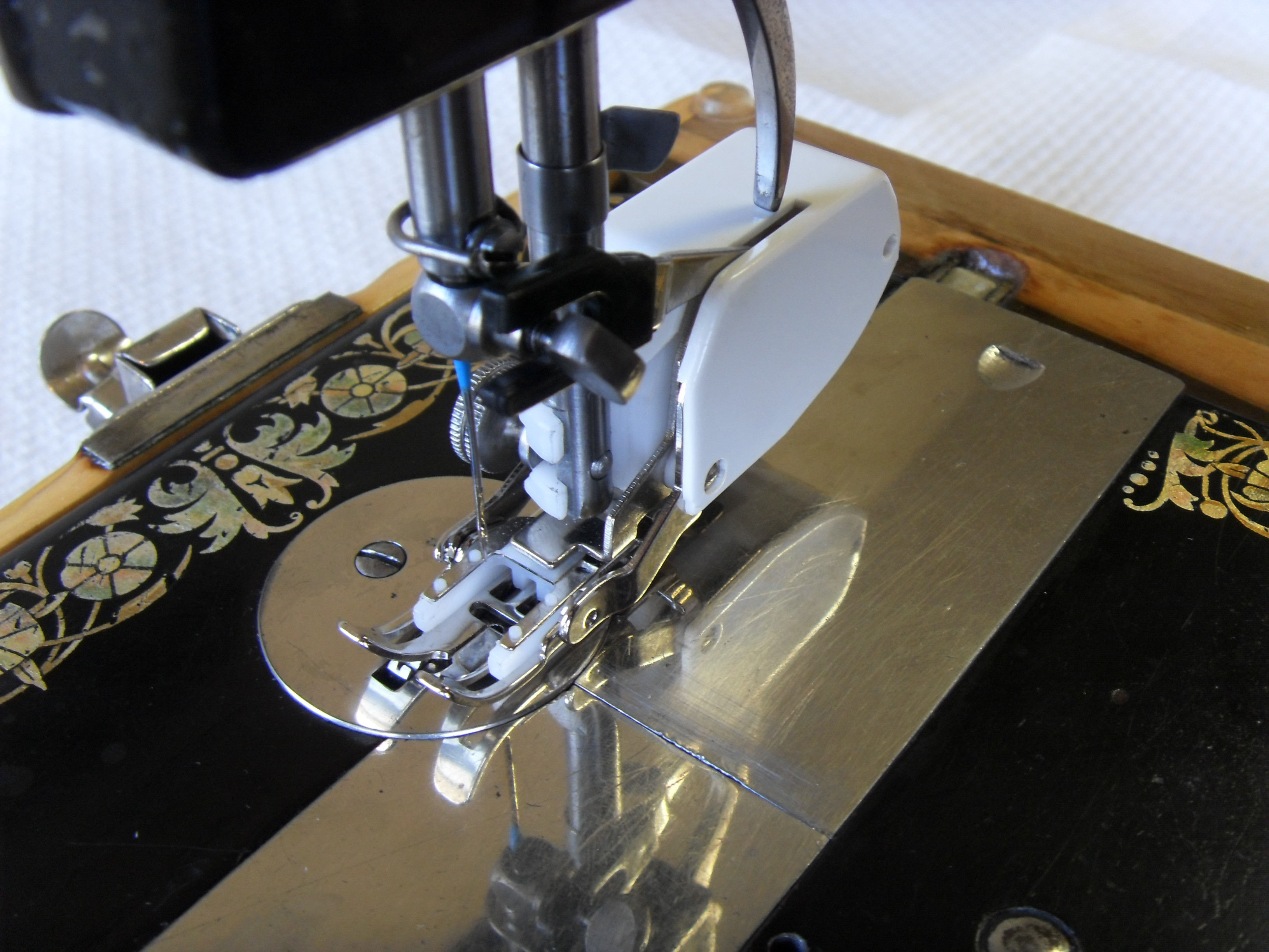 A "plaid matcher", a quasi-walking-foot for sewing machines